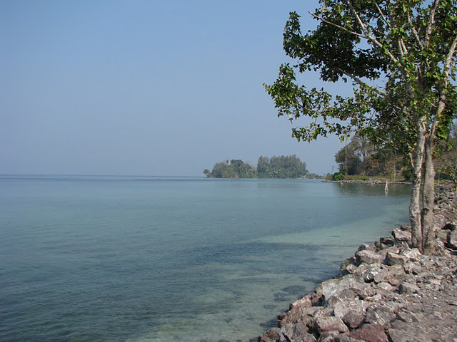 View of Wandoor beach from Mahatma Gandhi Marine National Park.